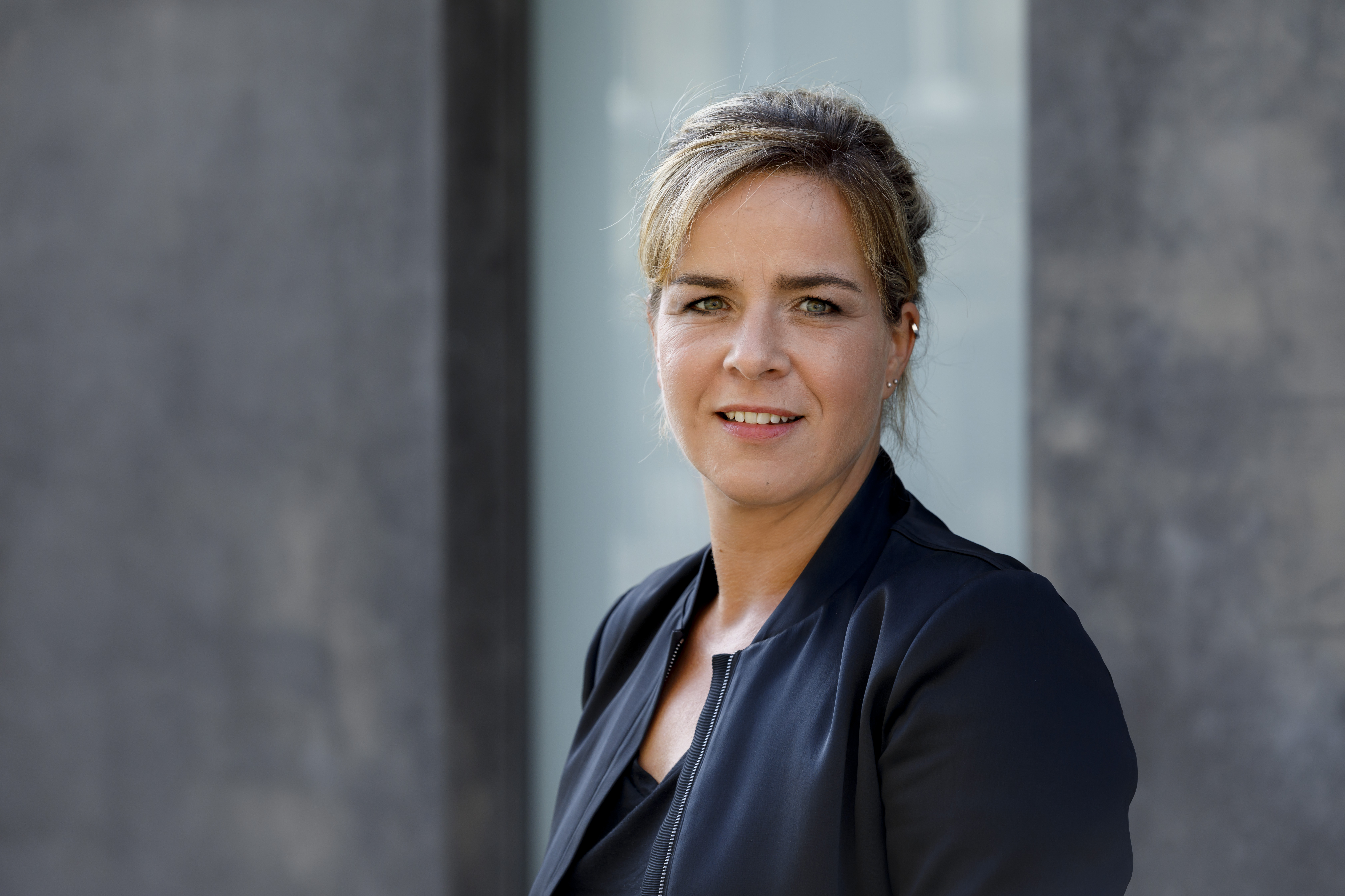 Mona Neubaur, Chairwoman Grüne NRW